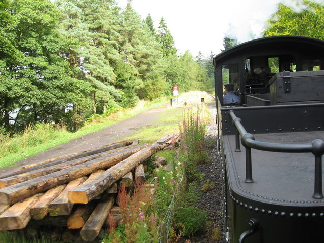 Forest track beside Brecon Mountain Railway